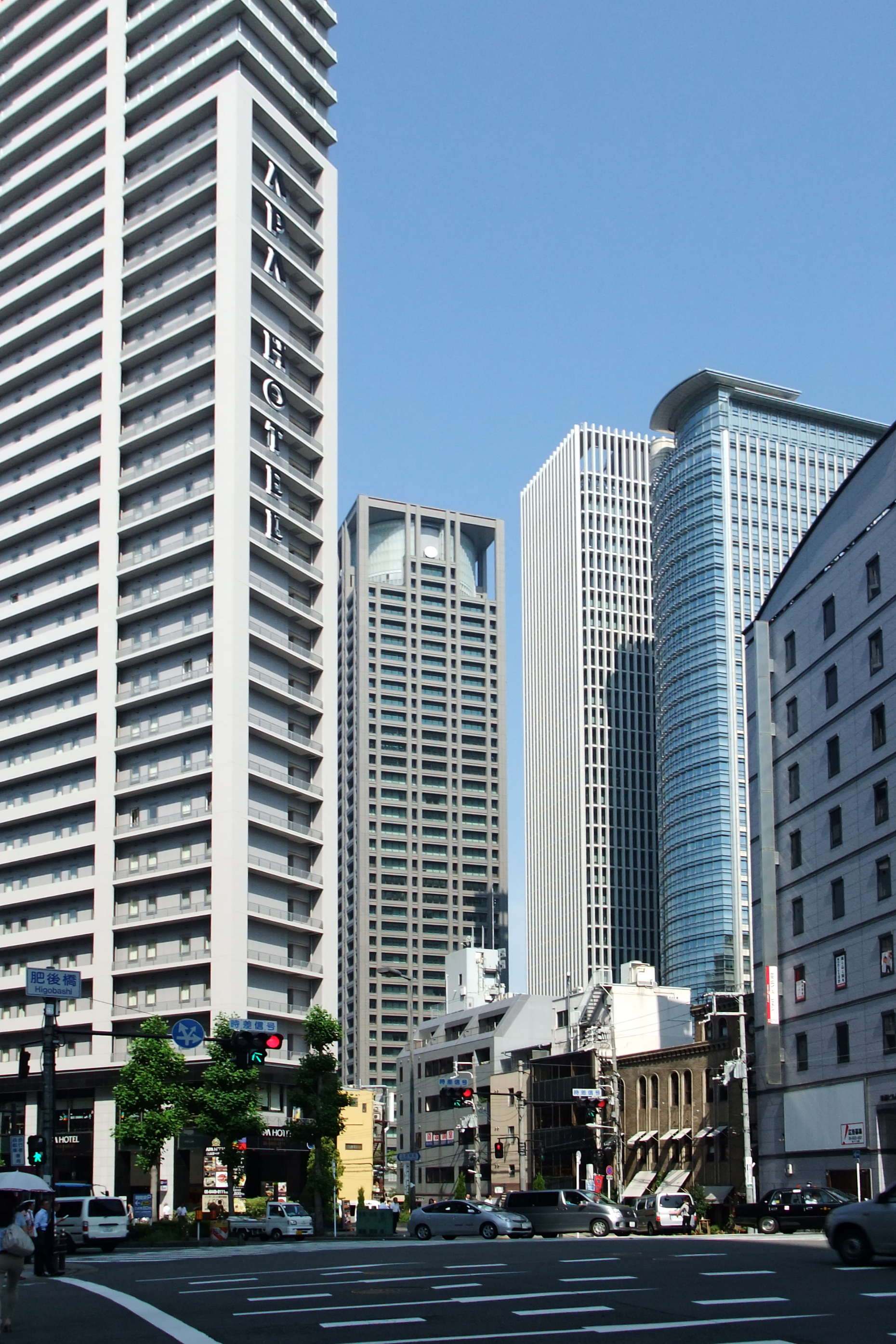 Higobashi Intersection in Osaka, Osaka prefecture, Japan